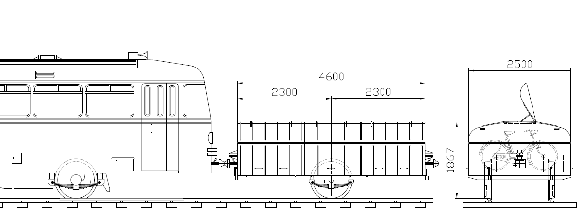 Single-axle trailer for german railcars VT 95, used for bicycle- and luggage-transport.